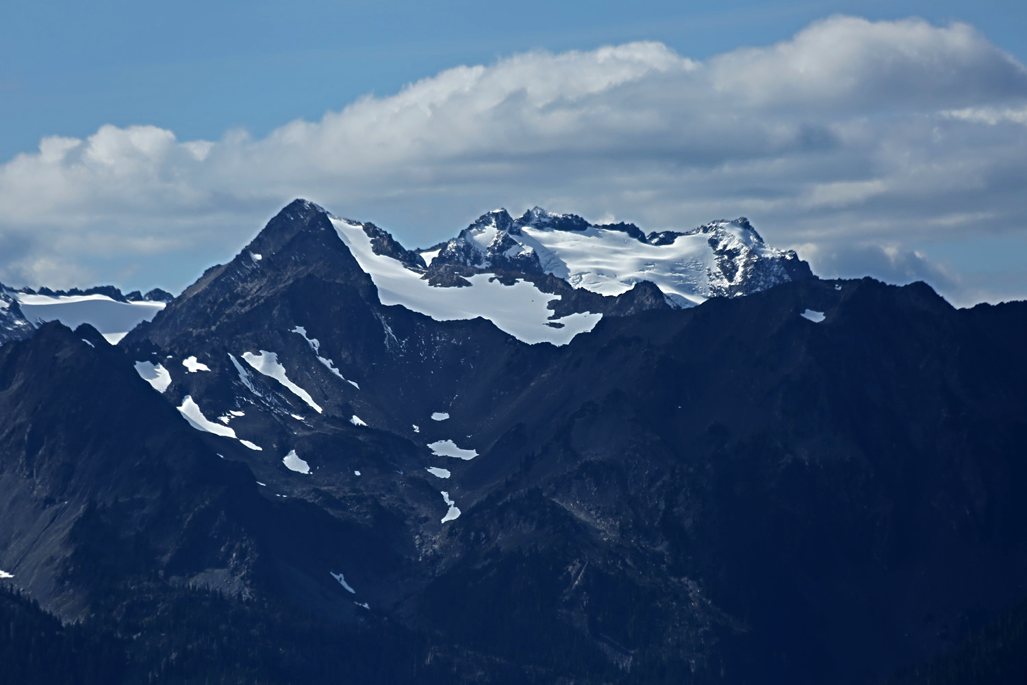 Mts. Fairchild and Carrie from Hurricane Hill, Olympic National Park